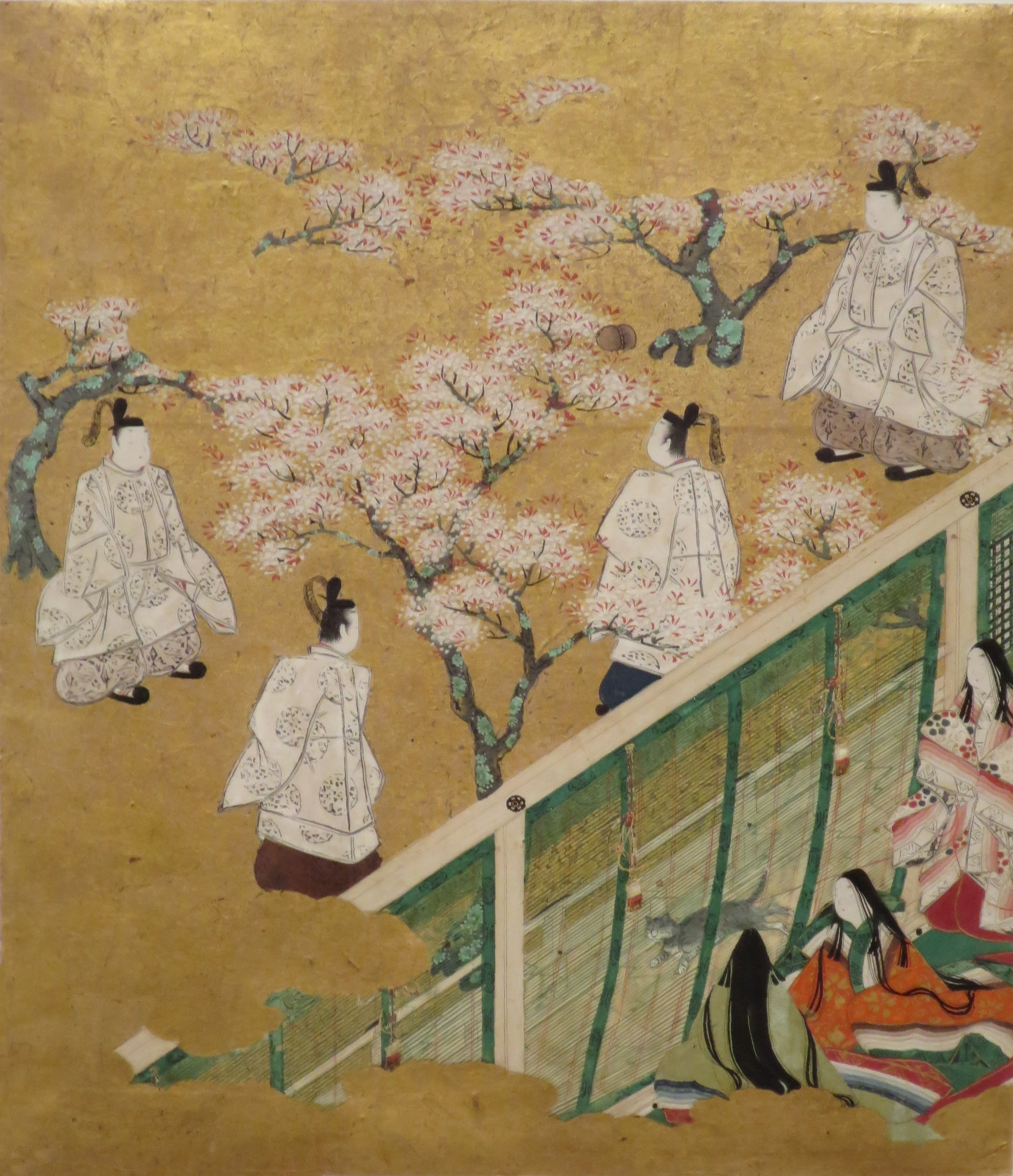 Episode from Chapter 34 (New Herbs) from the series The Tale of Genji, anonymous, 18th century Japanese, ink and color on paper, Honolulu Museum of Art, accession 6999.4